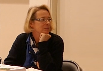 Christine Féret-Fleury at Salon de la Biographie 2016, Chaville (France)